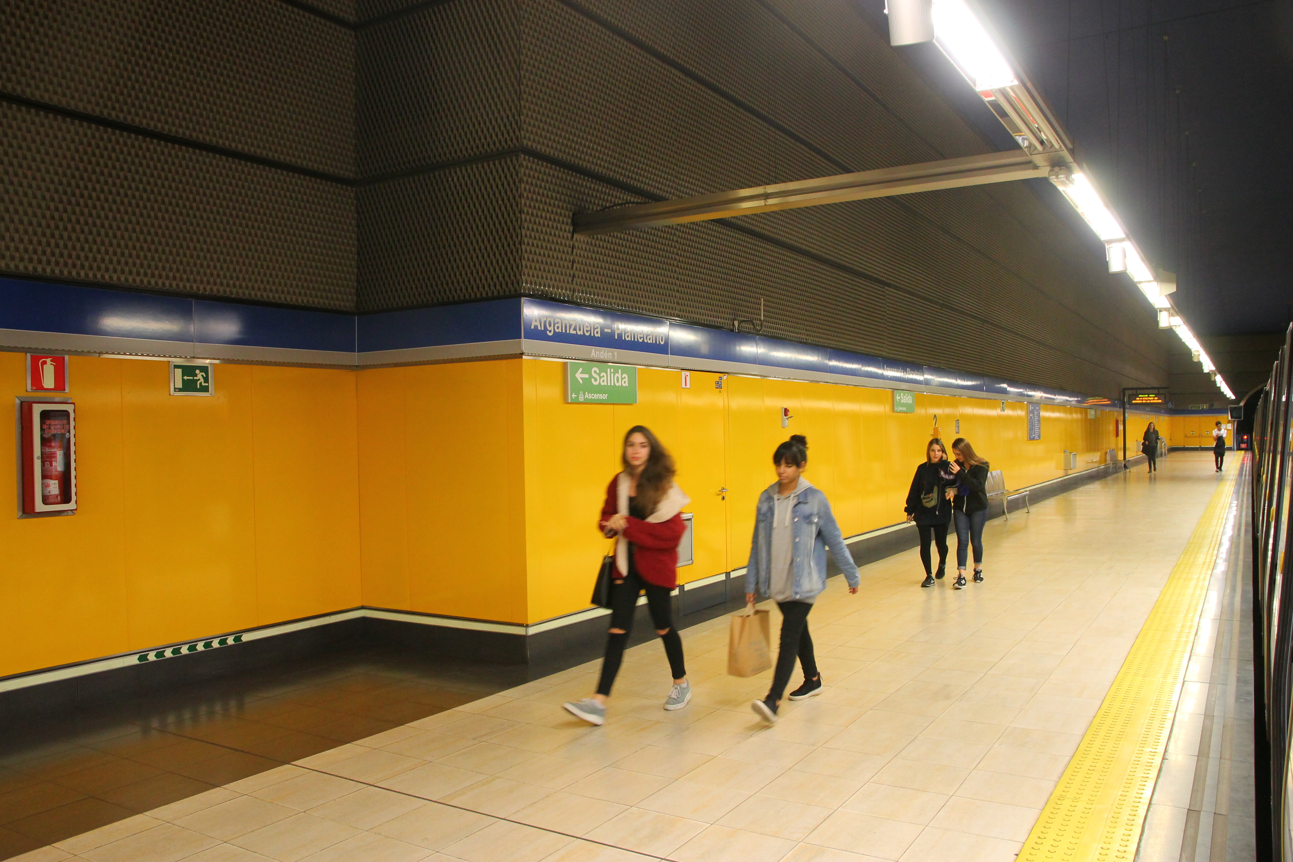 Estación de Arganzuela – Planetario